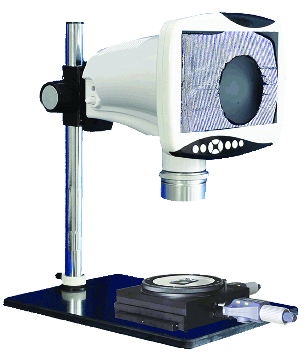 LB-343 Digital LCD Stereo Measuring Microscope (5.0MP, with measuring function) with 9 inch HD LCD screen with HD video and HDMI output has renovated the traditional way of microscopic observation and adopted a modern way of electronic imaging, a high resolution LCD screen and an accurate measurement stage. This patented microscope makes the observation more comfortable and thoroughly resolves the fatigue caused by using a traditional microscope for a long time. It features high resolution of LCD display to generate genuine photos and videos. This unit integrates X/Y digital micrometer and moving measuring stage for measuring functions.